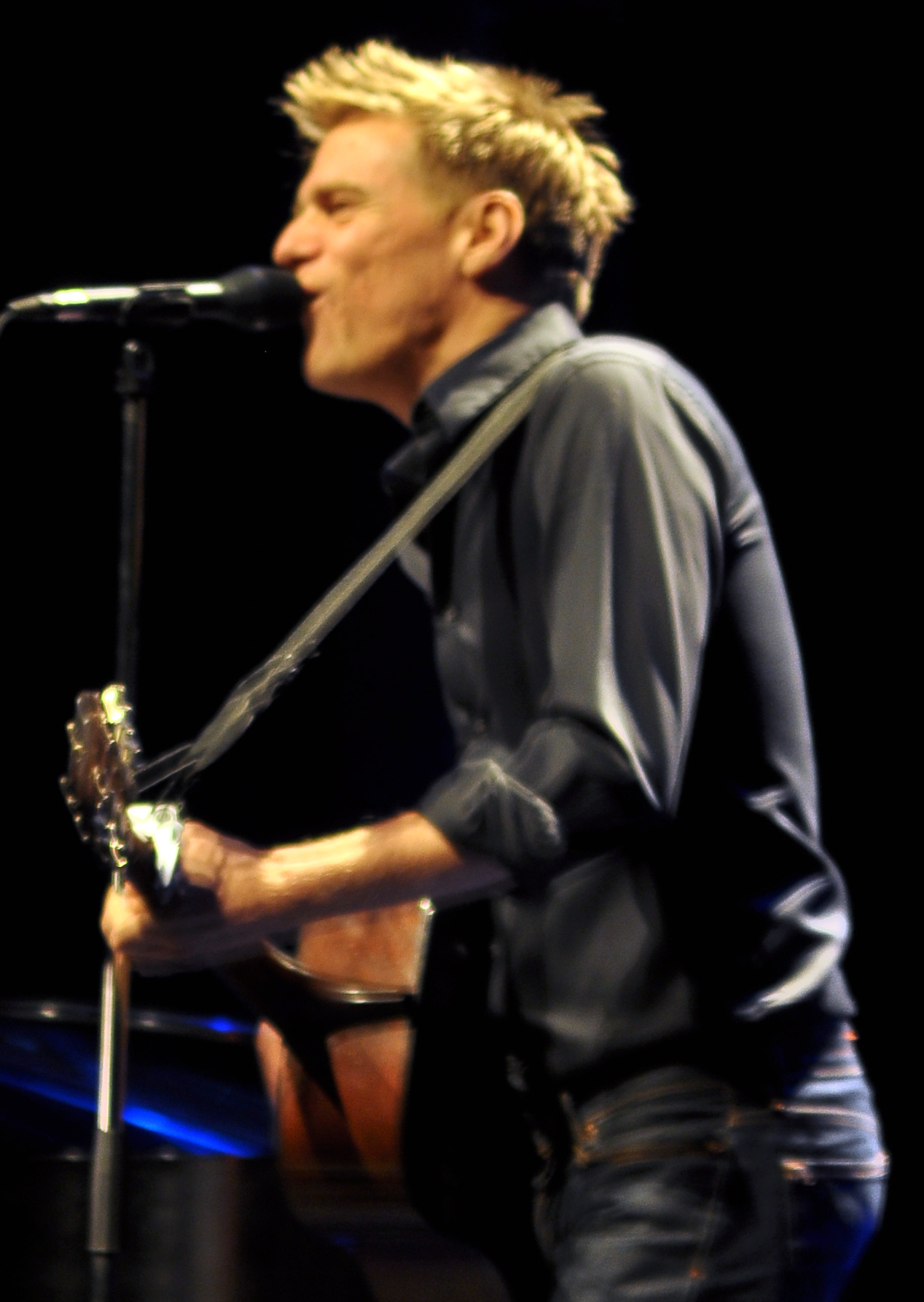 Video footage here Bryan Adams